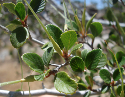 Cercocarpus betuloides var. betuloides — Mountain mahogany. In Joshua Tree National Park, Mojave Desert, California.